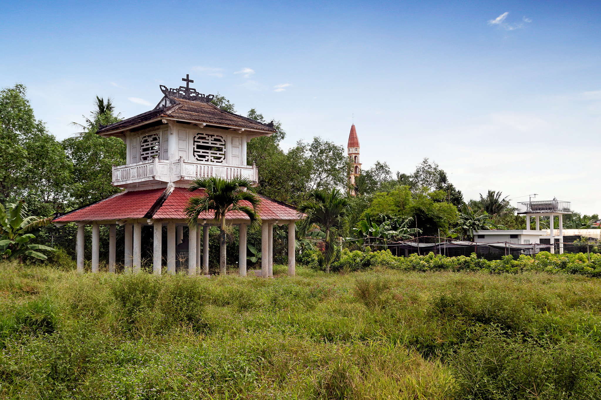 memorial at the birthplace of scientist Truong Vinh Ky. Behind is the main church of the parish Cai Mon (Cho Lach District, Ben Tre, Vietnam